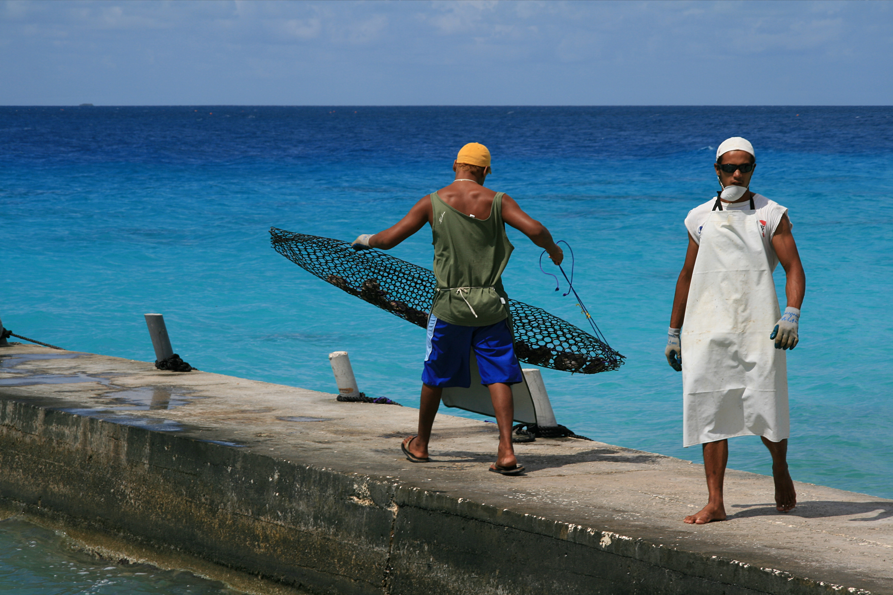 Workmen in a black pearl farm on the Rangiroa atoll, in French Polynesia. The workman at the right side has checked the good health of oysters (Pinctada margaritifera) and the growth of the pearls. He has give the cage to the workman at left, who will bring back it in the lagoon, where oysters will continue their growth.